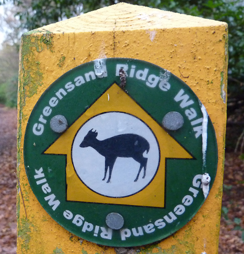 This waymarker is used to denote the route of the Greensand Ridge Walk. A silhouette of the muntjac deer (a common sight in the vicinity of the village of Woburn) is used as part of the design.